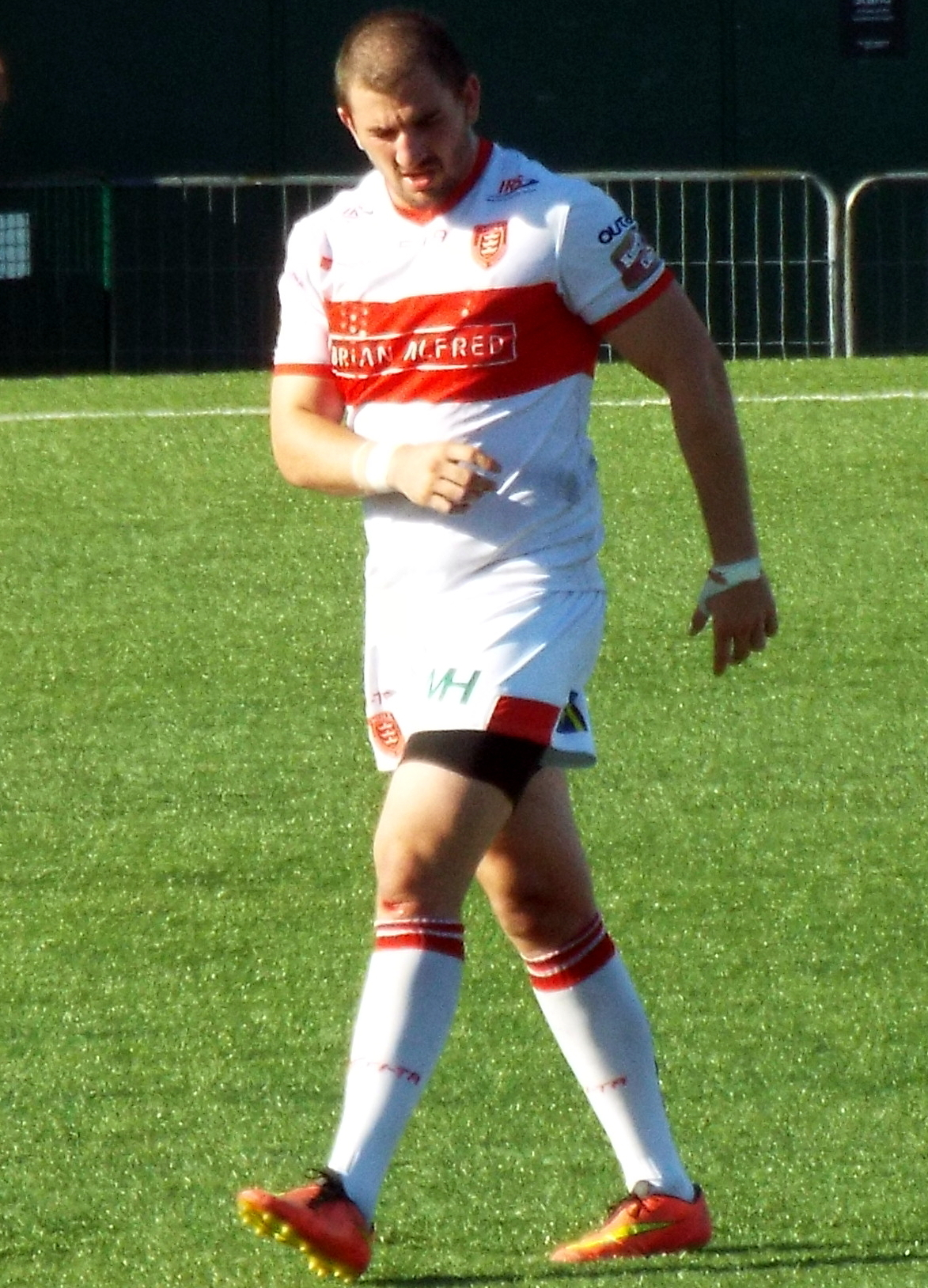 Adam Walker